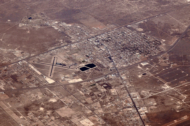 Monahans, Texas from 30000 feet